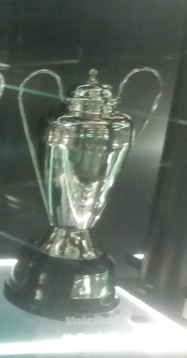 Several trophies from other sports are also shown